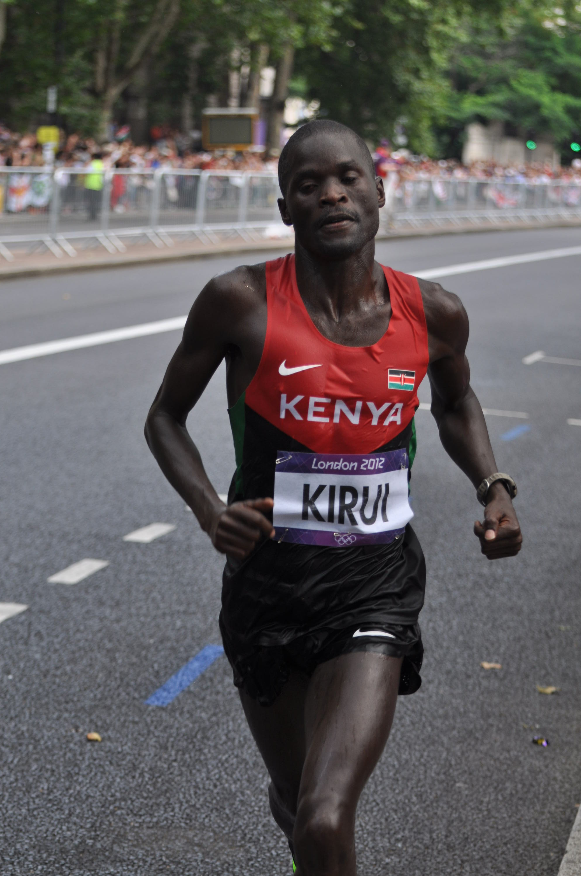 2012 Olympic Marathon